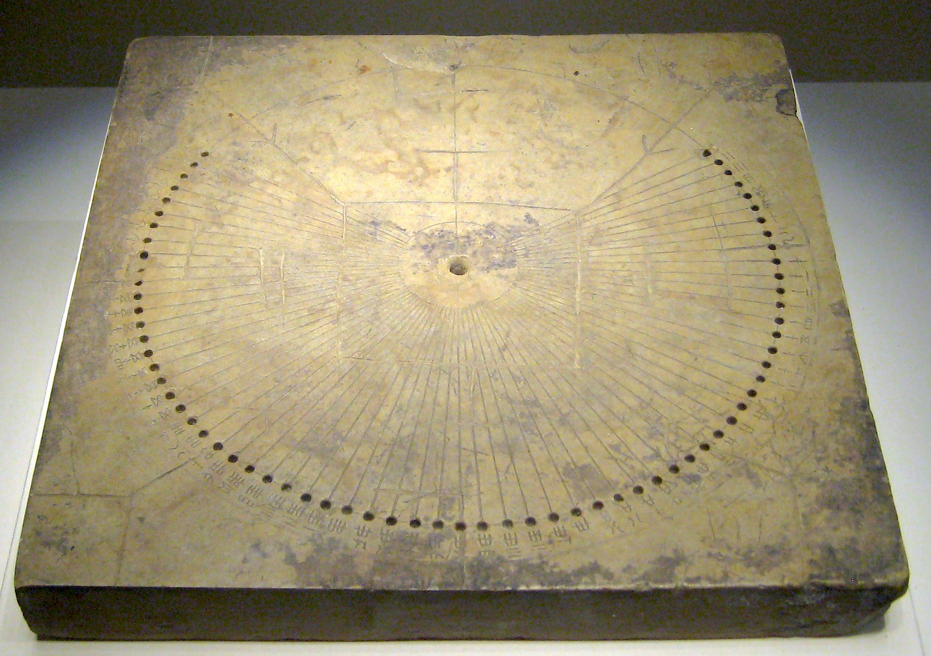 This stone sundial from the Chinese Western Han Dynasty, dated to the 2nd century AD, was unearthed at Togtoh, Inner Mongolia, in 1897. The surface of the sundial has been crudely overcarved with markings for the game of Liubo.